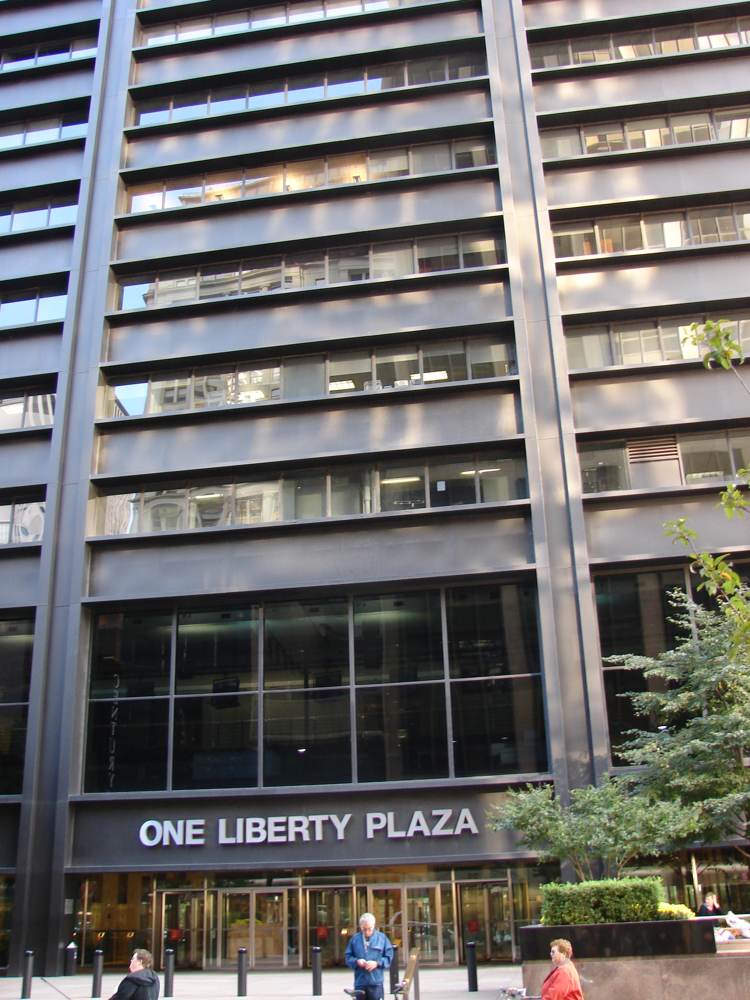 This photo is of Wikis Take Manhattan goal code H14, One Liberty Plaza.